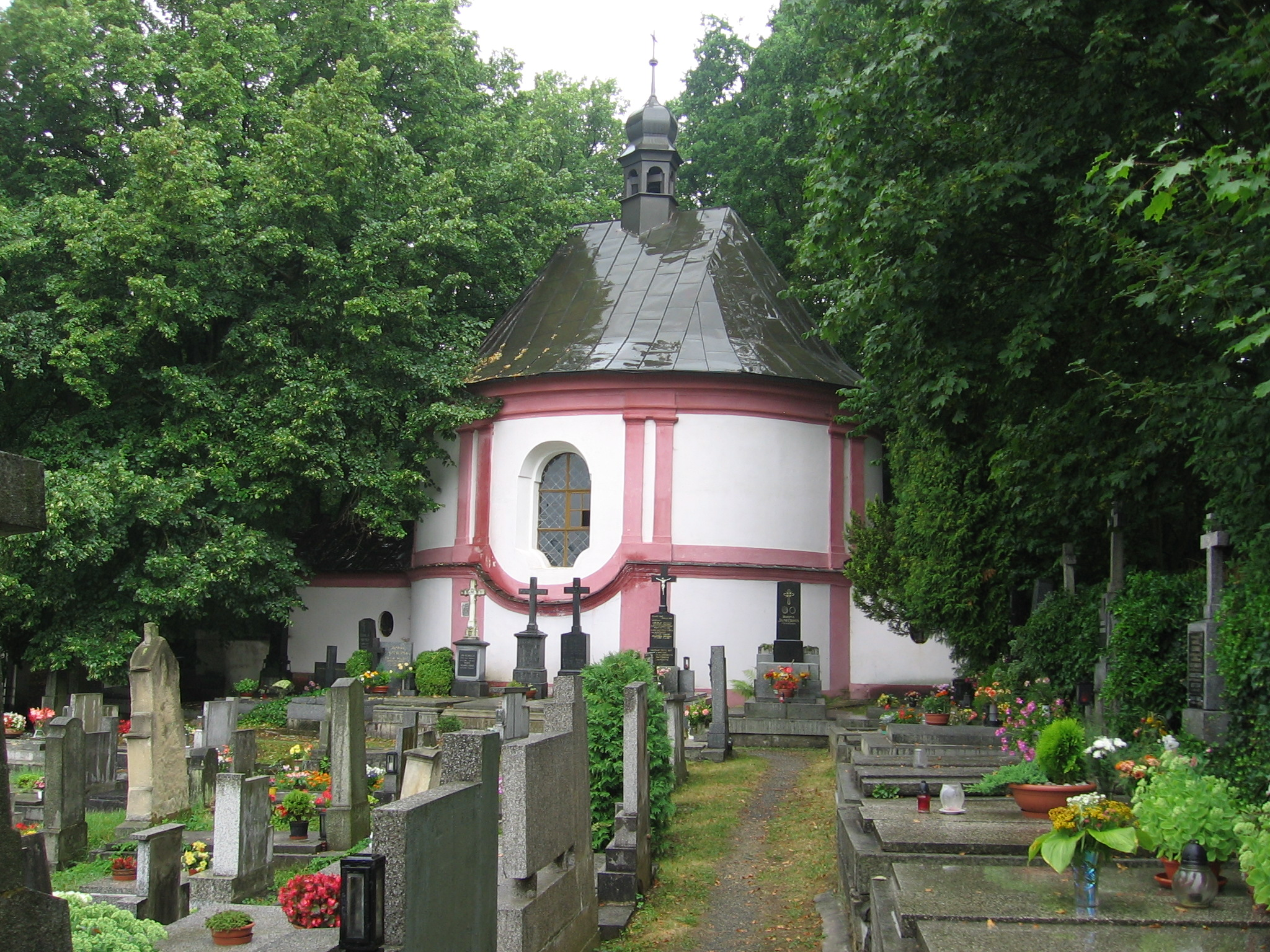 Chudenice - cemetery chapel of st.Anna